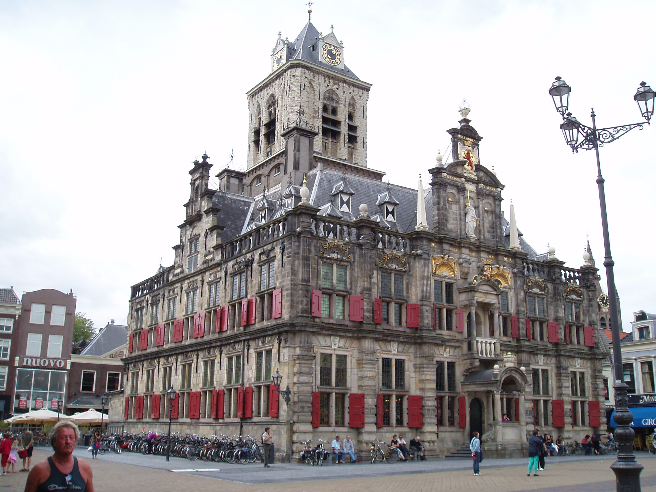 Townhall in Delft in the Netherlands